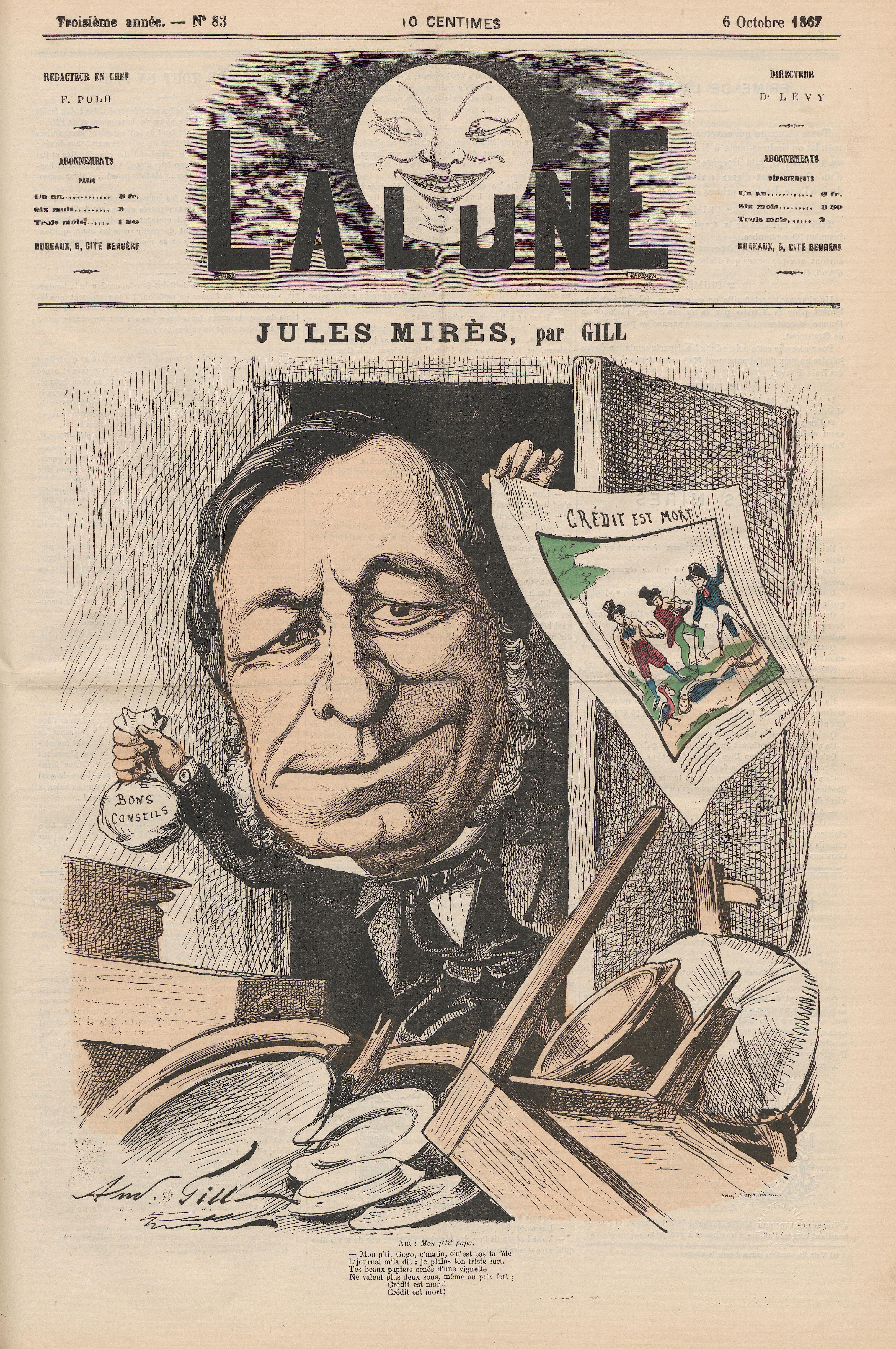 Jules Mirès (1809-1871), French banker, investor, financier; caricature by André Gill published in « La Lune », October 6, 1867, hand-colored engraving, 12"w x 18"h